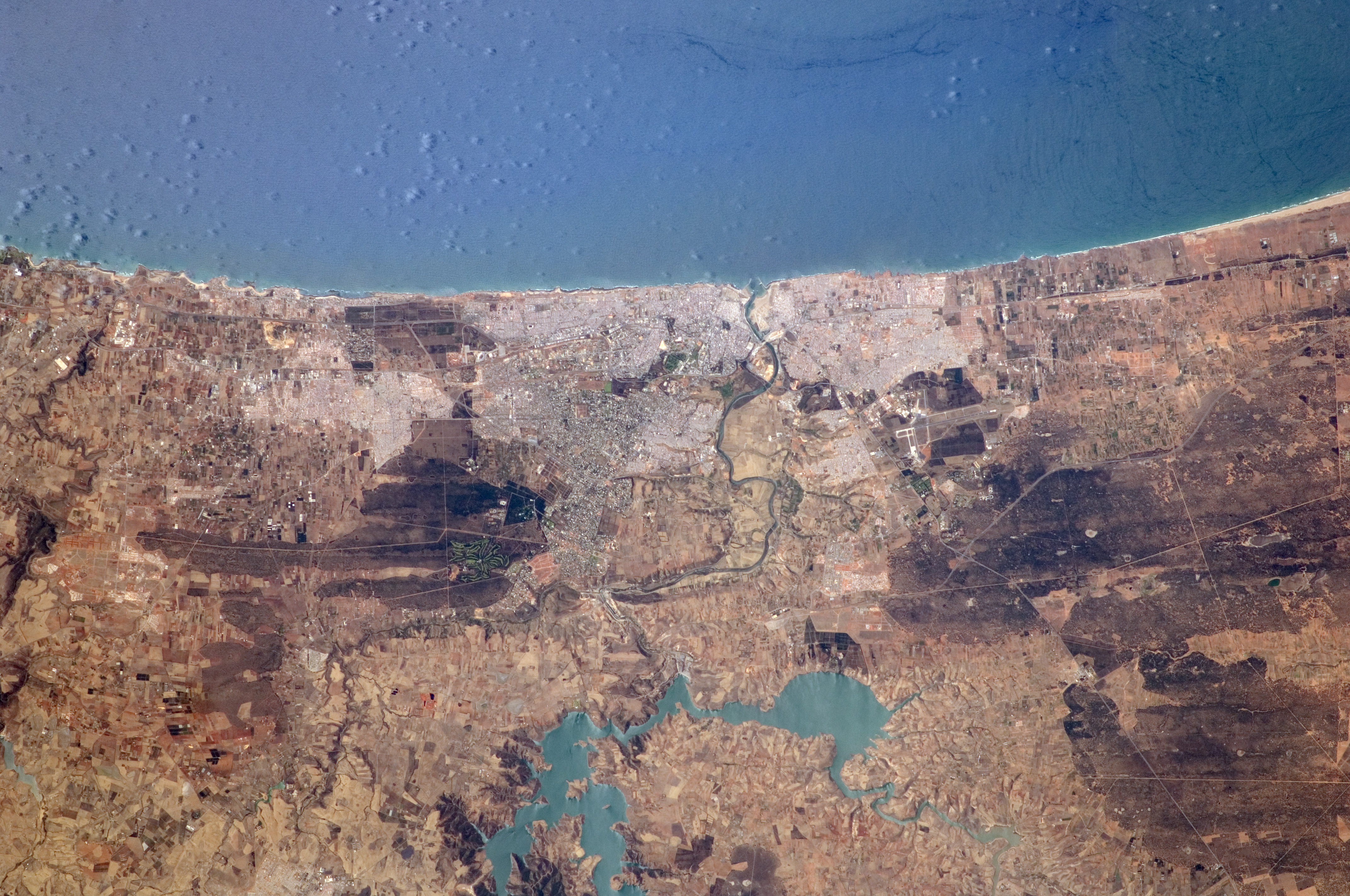 Astronaut Photo of Rabat, Morocco taken from the International Space Station (ISS) during Expedition 24 on July 31, 2010.